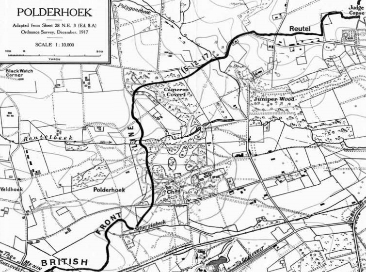 Contour map of the British-German front line from the Menin road around Polderhoek Chateau to Reutel, 5 December 1917, showing Juniper Wood, Cameron Covert and the chateau grounds.